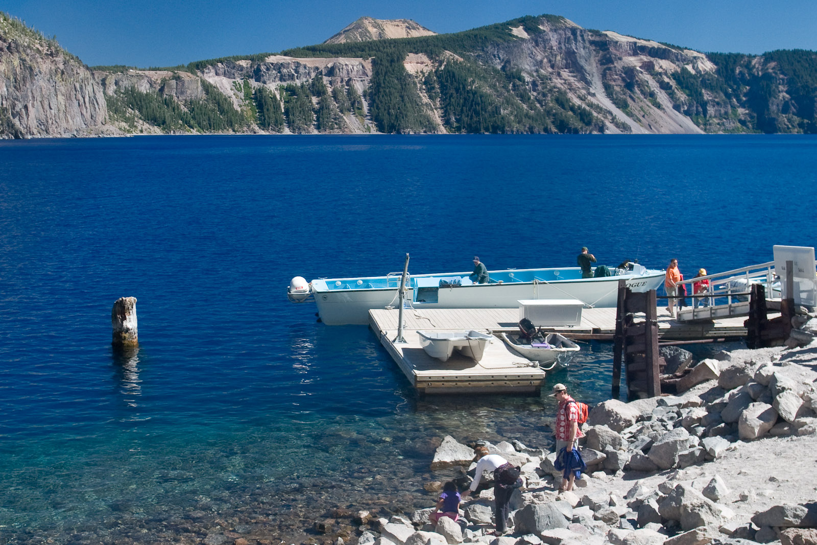 Boat Launch at Cleetwood Cove with the Old Man of the Lake to the left